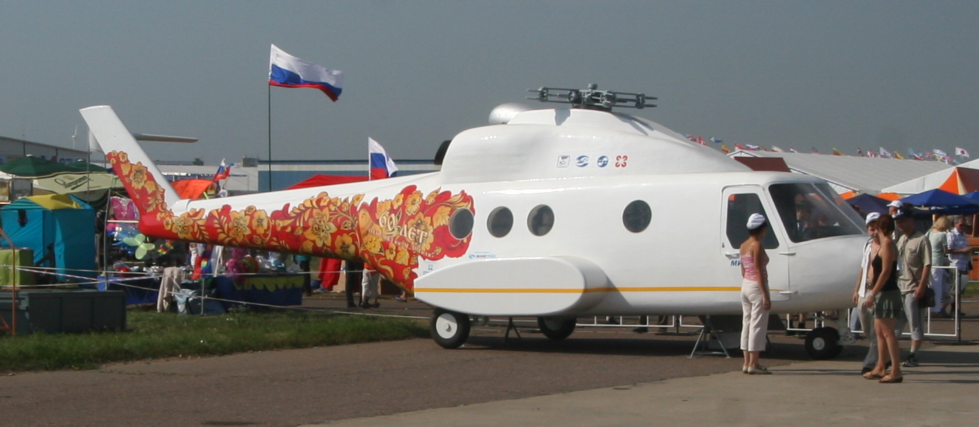 Russian Mil helicopter painted in Khokhloma (probably, it's a wooden mock-up) as seen on 2007 MAKS Airshow